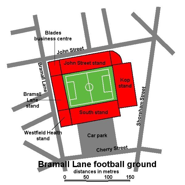 Bramall Lane football ground, Highfield, Sheffield.